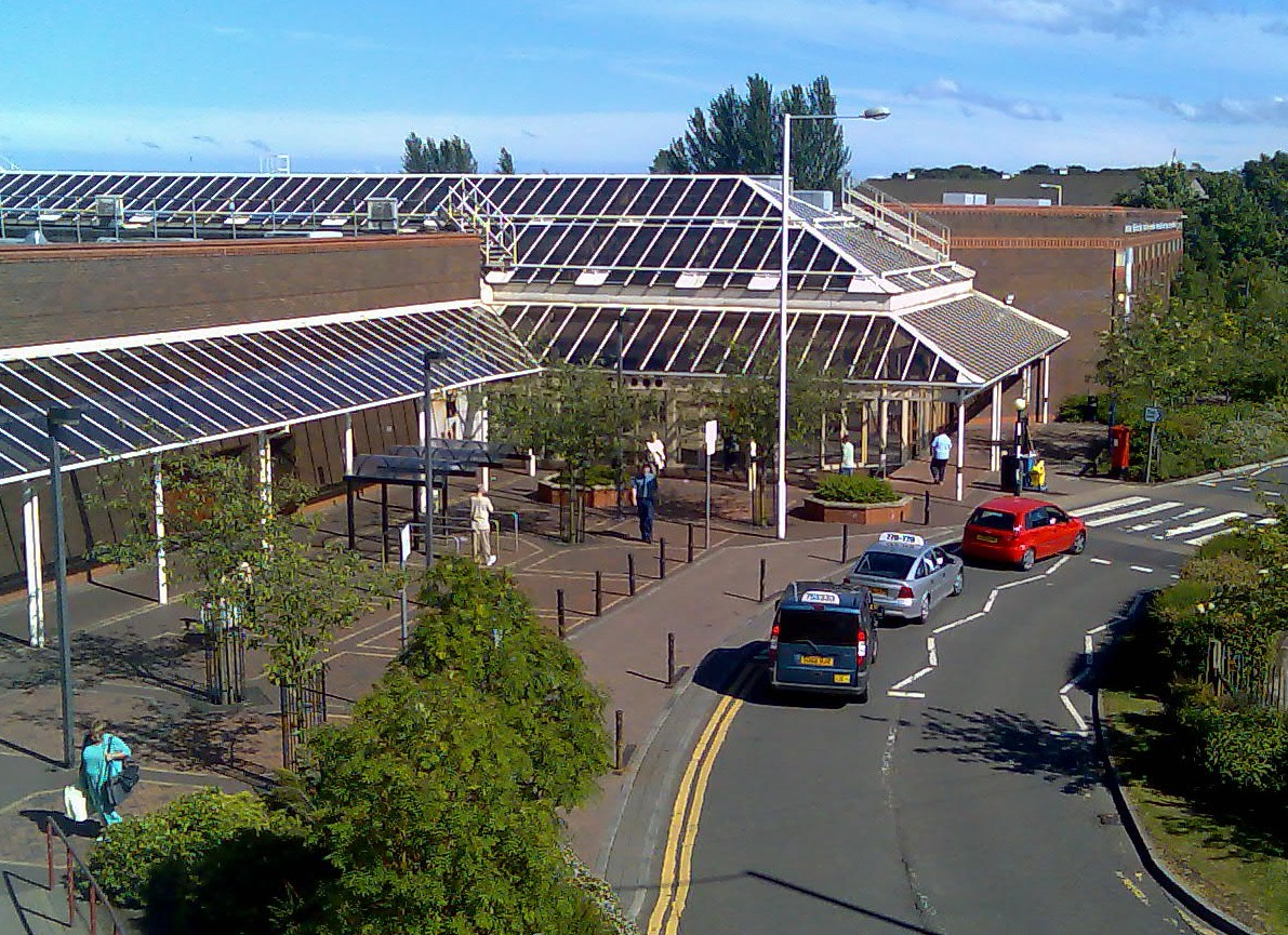 Kingdom Shopping Centre - west entrance, Glenrothes